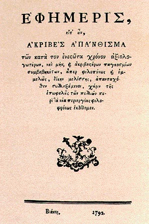 First page of Greek paper "Ephemeris", published in Vienna